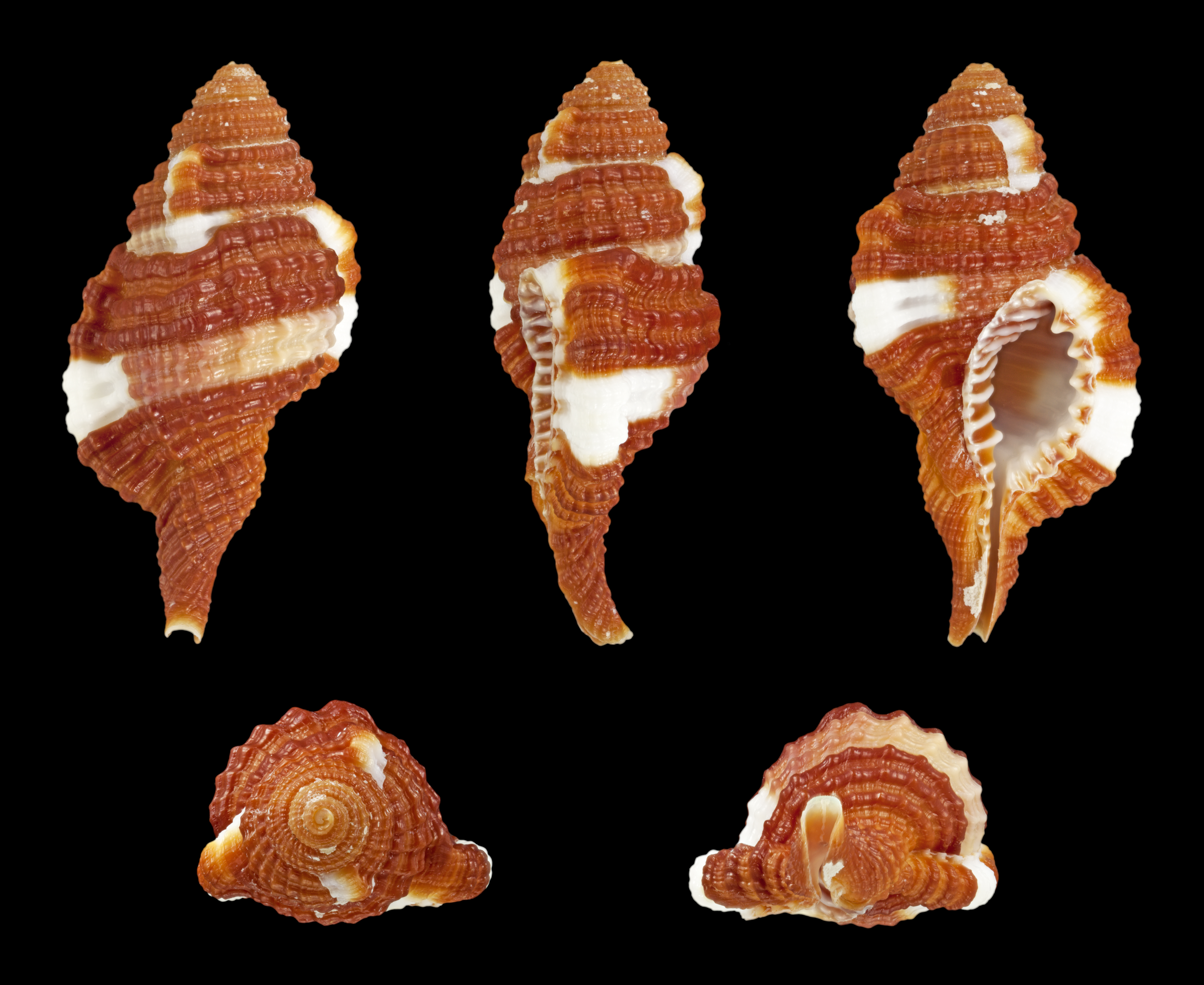 Length 3.8 cm; Originating from Bohol, Philippines; Shell of own collection, therefore not geocoded. Dorsal, lateral (right side), ventral, back, and front view.